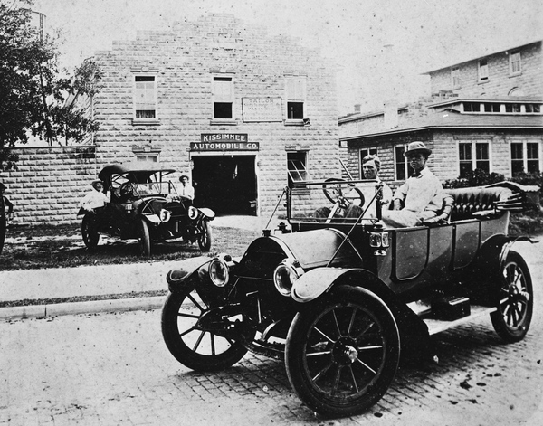 Kissimmee Automobile Company with Cartercar Model M touring, c. 1911